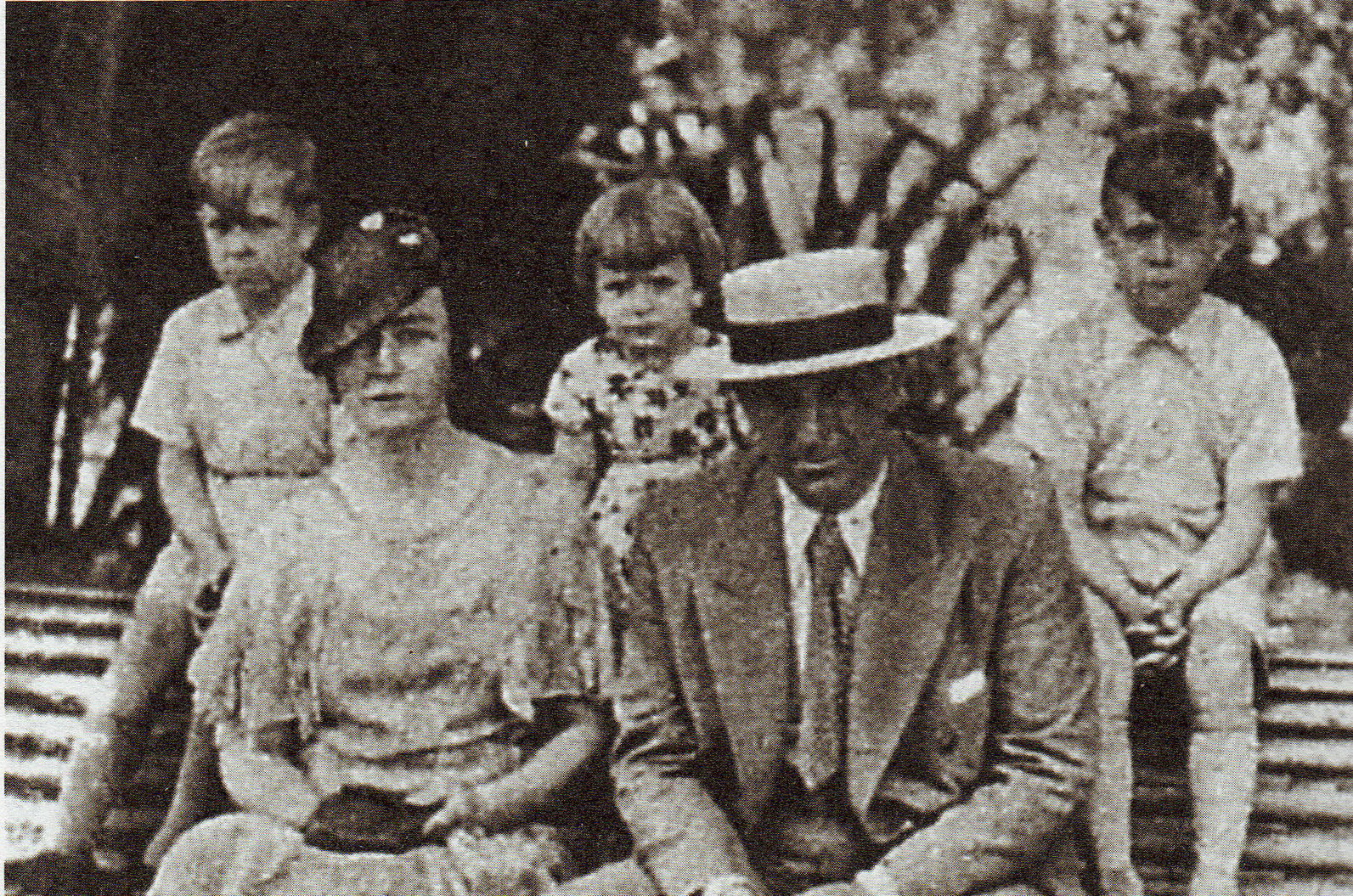 Alfredo Di Stefano family: On the right-on the left — Alfredo junior, Alfredo father, Norma, Eulalia, Tulio